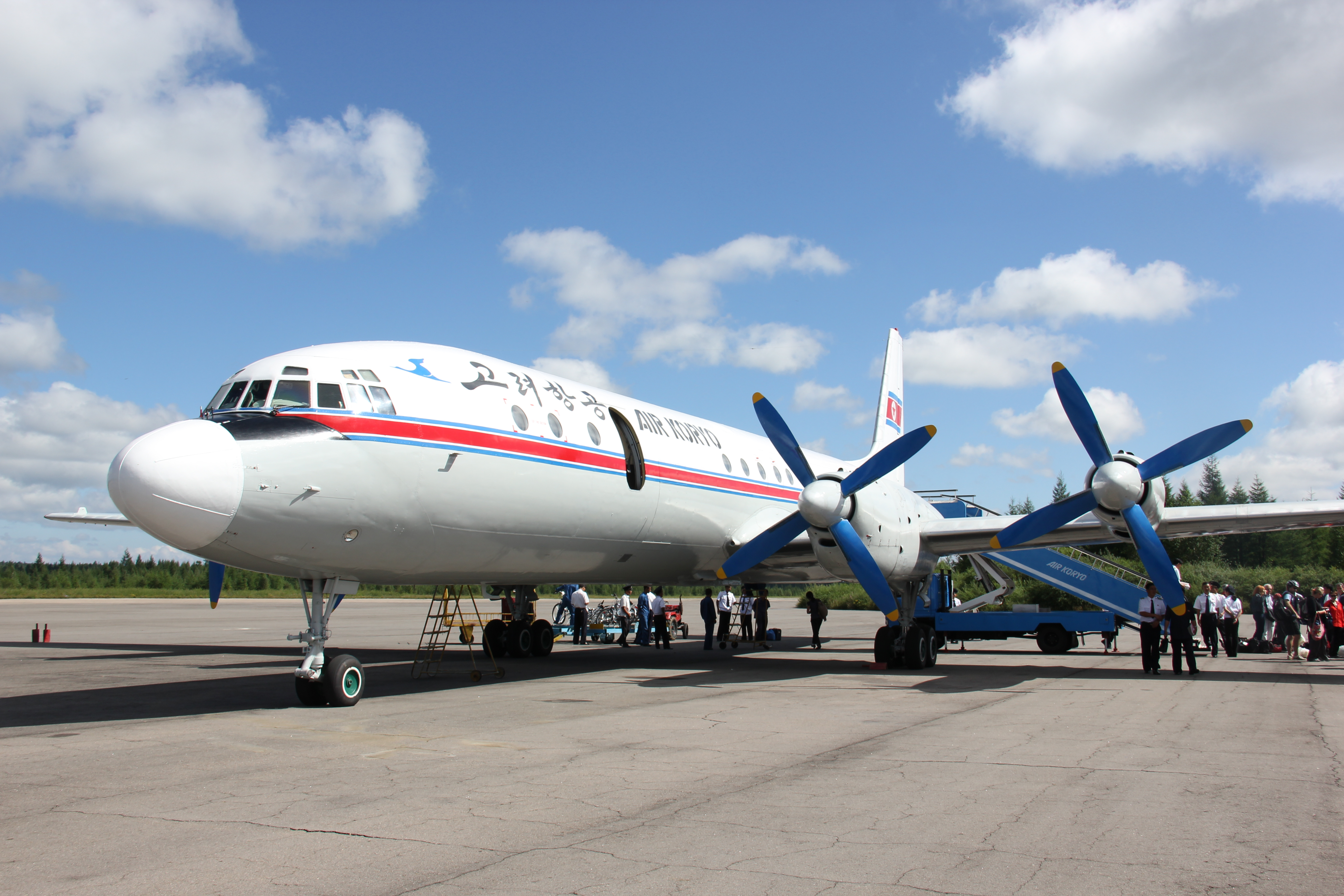 Russian-built of course! This one was made in the 1960's.